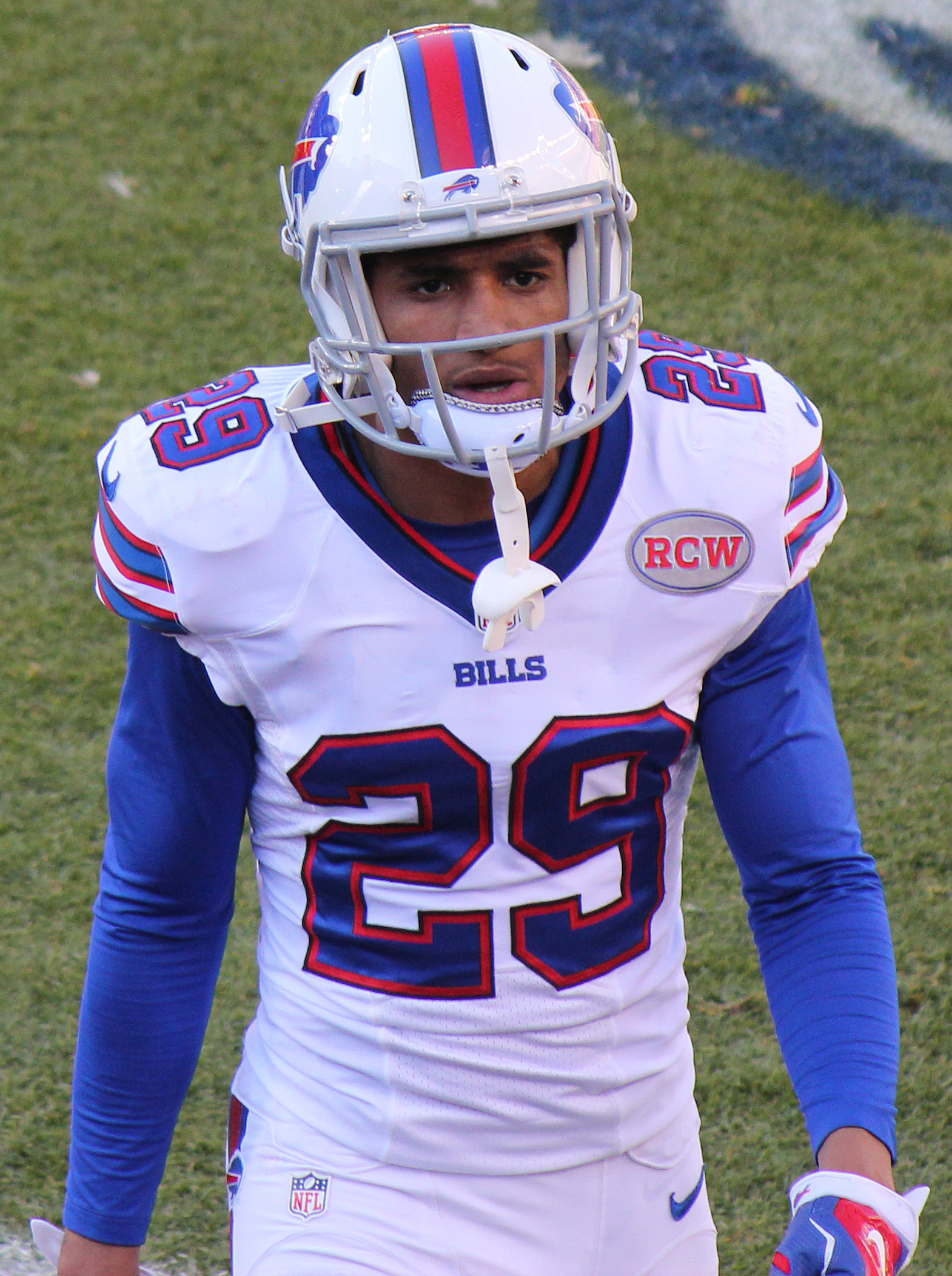 Ross Cockrell, a player on the National Football League.